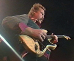 Guitarist Bob Boykin on stage